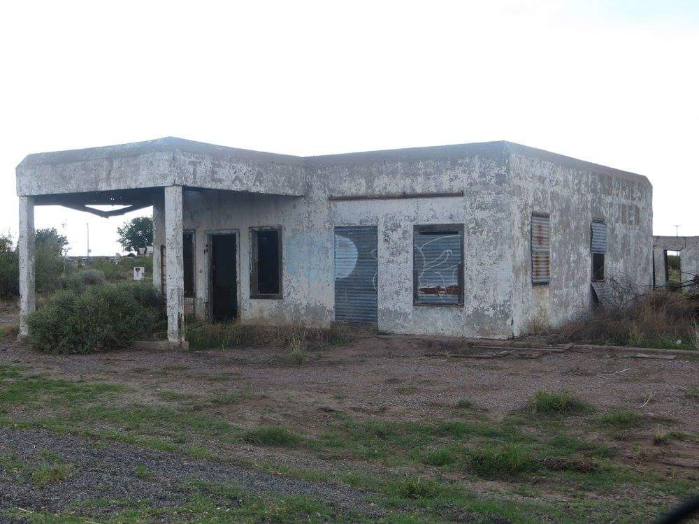 An Abandoned 1930s Texaco Station from the era when NM 418 was still a part of US 70 and US 80.